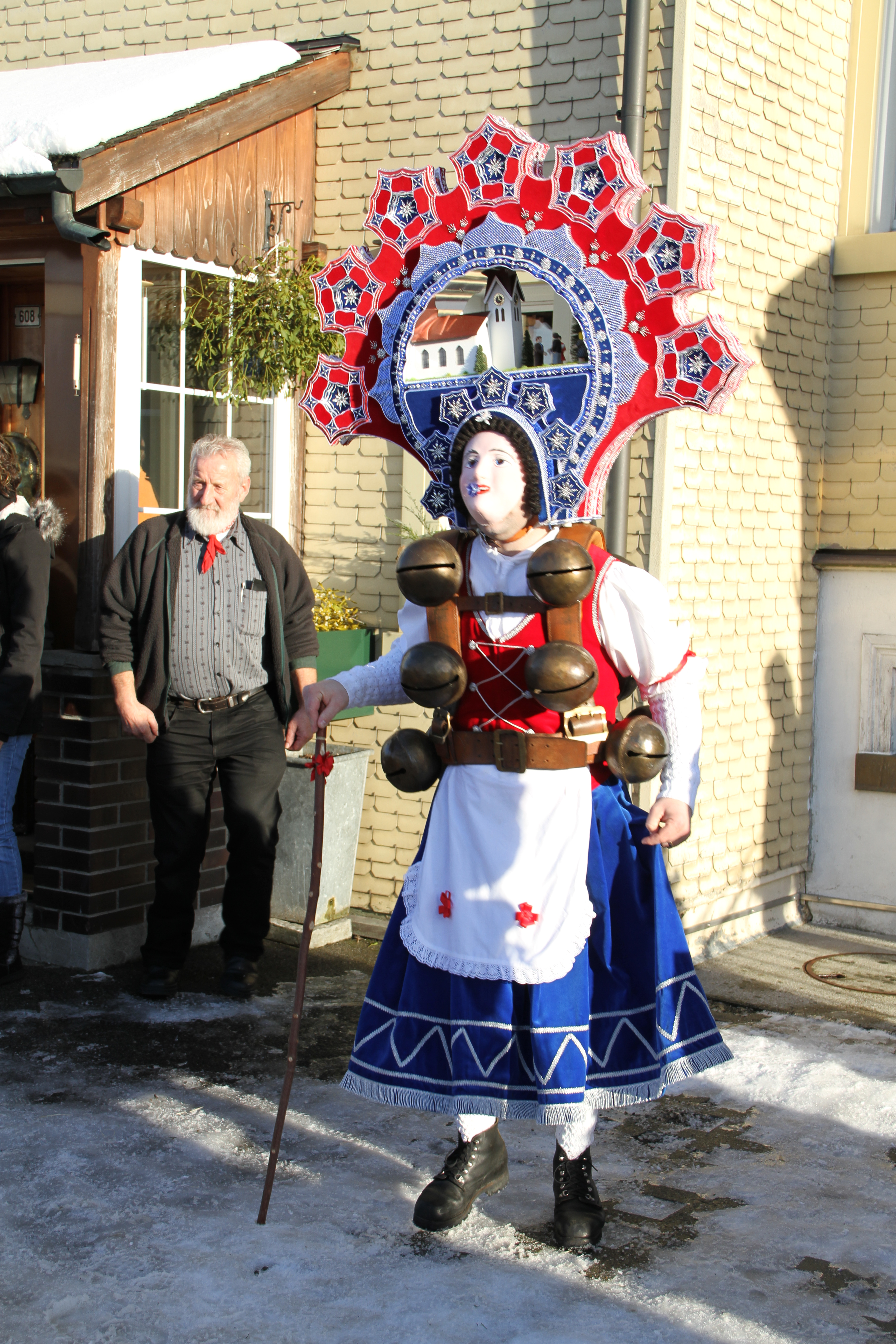 Celebrating "old" New Year's Eve in Urnäsch, Appenzell, Switzerland (2013)